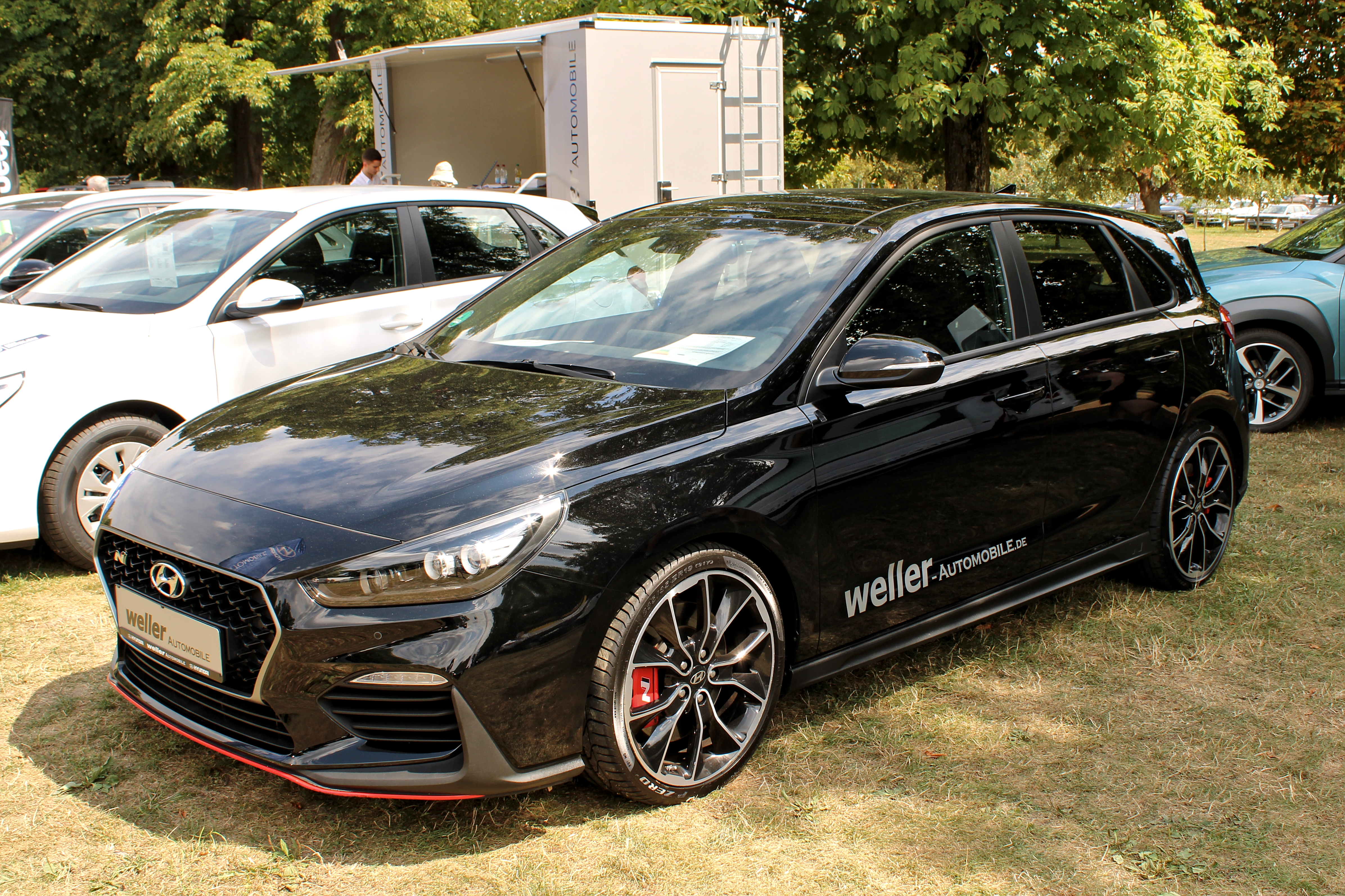 Hyundai i30 N at schloss Monrepos